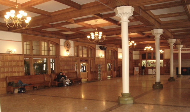 Taken by PennaBoy for use on Wikipedia February 2007. Harrisburg Transportation Center, Harrisburg, Pennsylvania. Former Pennsylvania Station. Has status as a National Historic Landmark.